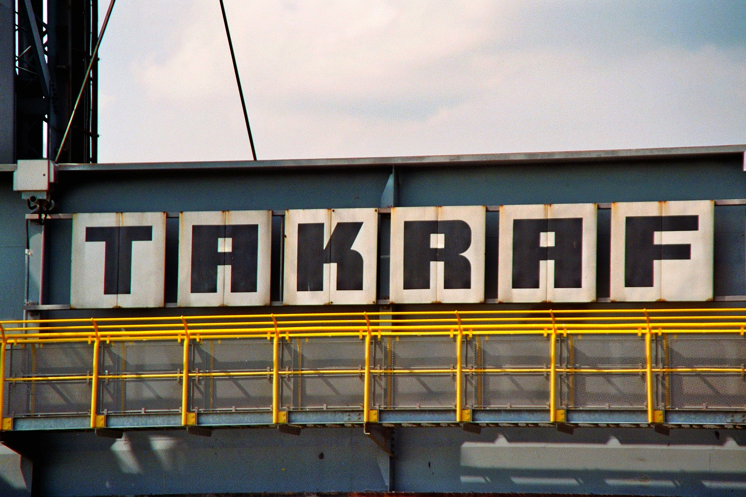 TAKRAF on the Overburden Conveyor Bridge F60 in Lichterfeld-Schacksdorf, distrikt Elbe-Elster, Brandenburg, Germany.